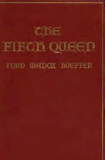 Cover of book digitized by Google from the library of Harvard University and uploaded to the Internet Archive by user tpb